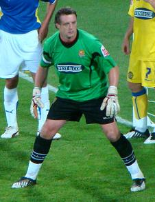 Photo of footballer Tony Roberts